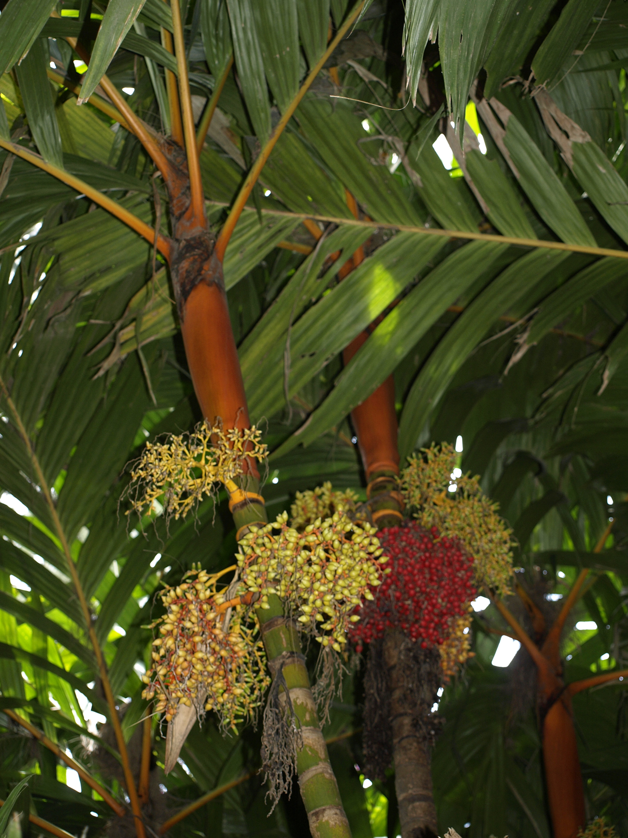 cultivated, Costa Rica